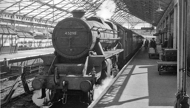 Swansea Victoria Station, with train. View westward away from buffers, towards Pontardulais, Llandilo, Llandovery, Llandrindod Wells and Craven Arms; terminus of ex-London & North Western Central Wales line from Craven Arms. This station along with the final section from Pontadulais was closed on 27/6/64, the service being diverted to Llanelli and now after reversal runs on from there to Swansea High Street. Here Stanier Class 5 4-6-0 No. 45298 has arrived at 16.17 on the 12.00 through from Shrewsbury, with 28 stops - hardly an express.